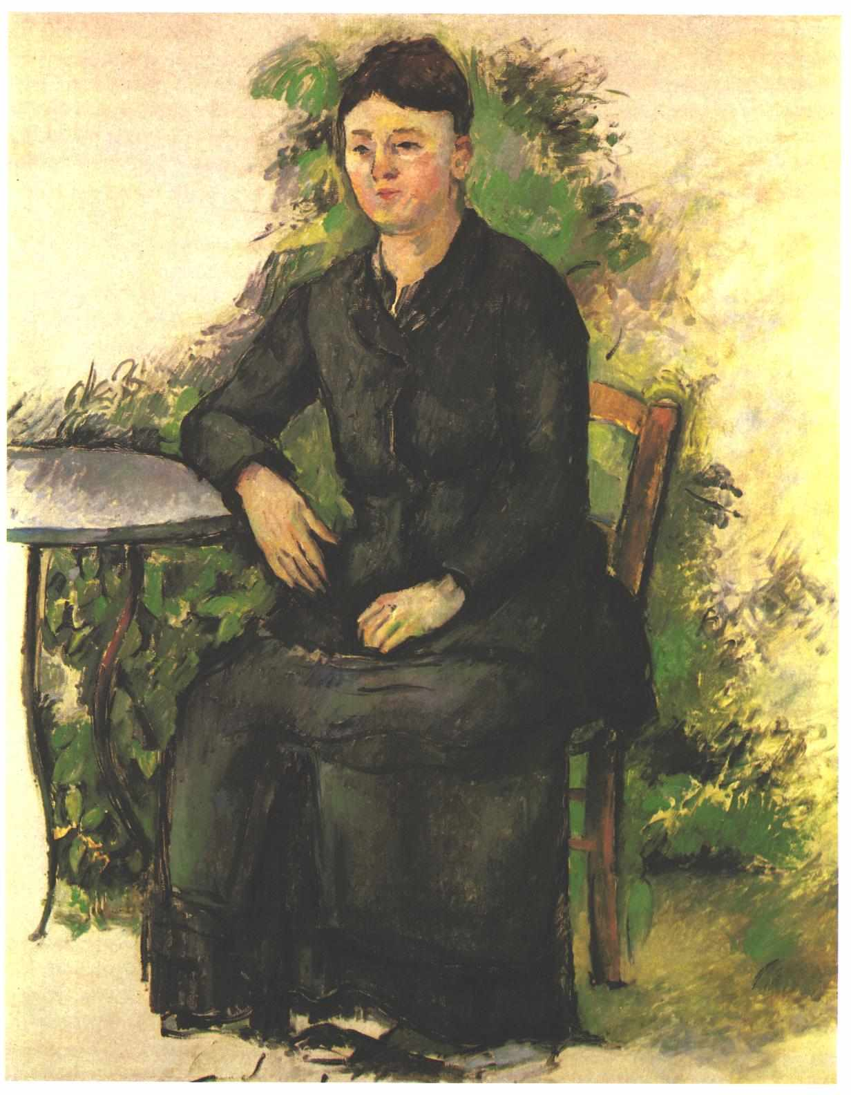 Madame Cezanne in the garden